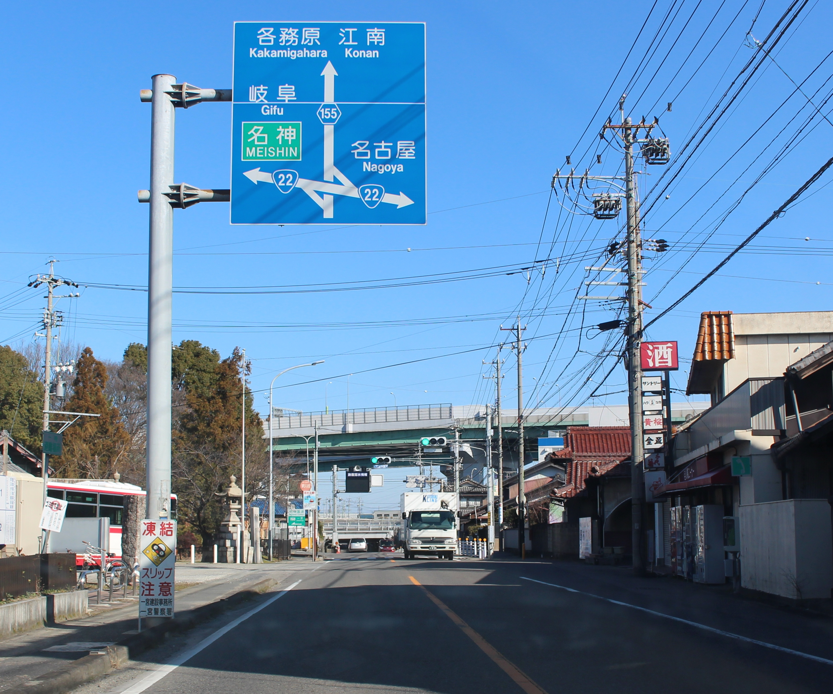 Aichi Prefectural Road Route 155 and Route 22 in Kokonokaichiba, Tanyocho, Ichinomiya, Aichi prefecture, Japan.